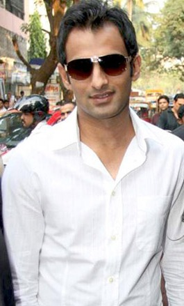 Shoib Malik